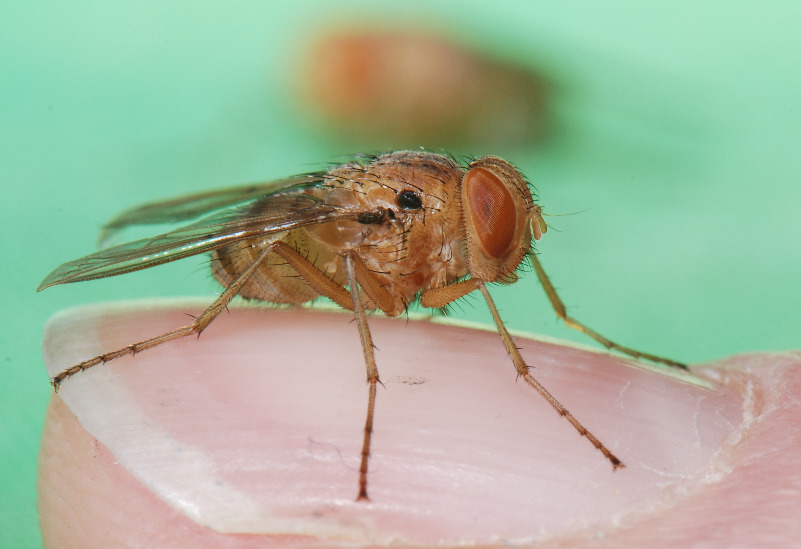 A gravid female Ormia ochracea resting on a fingernail.